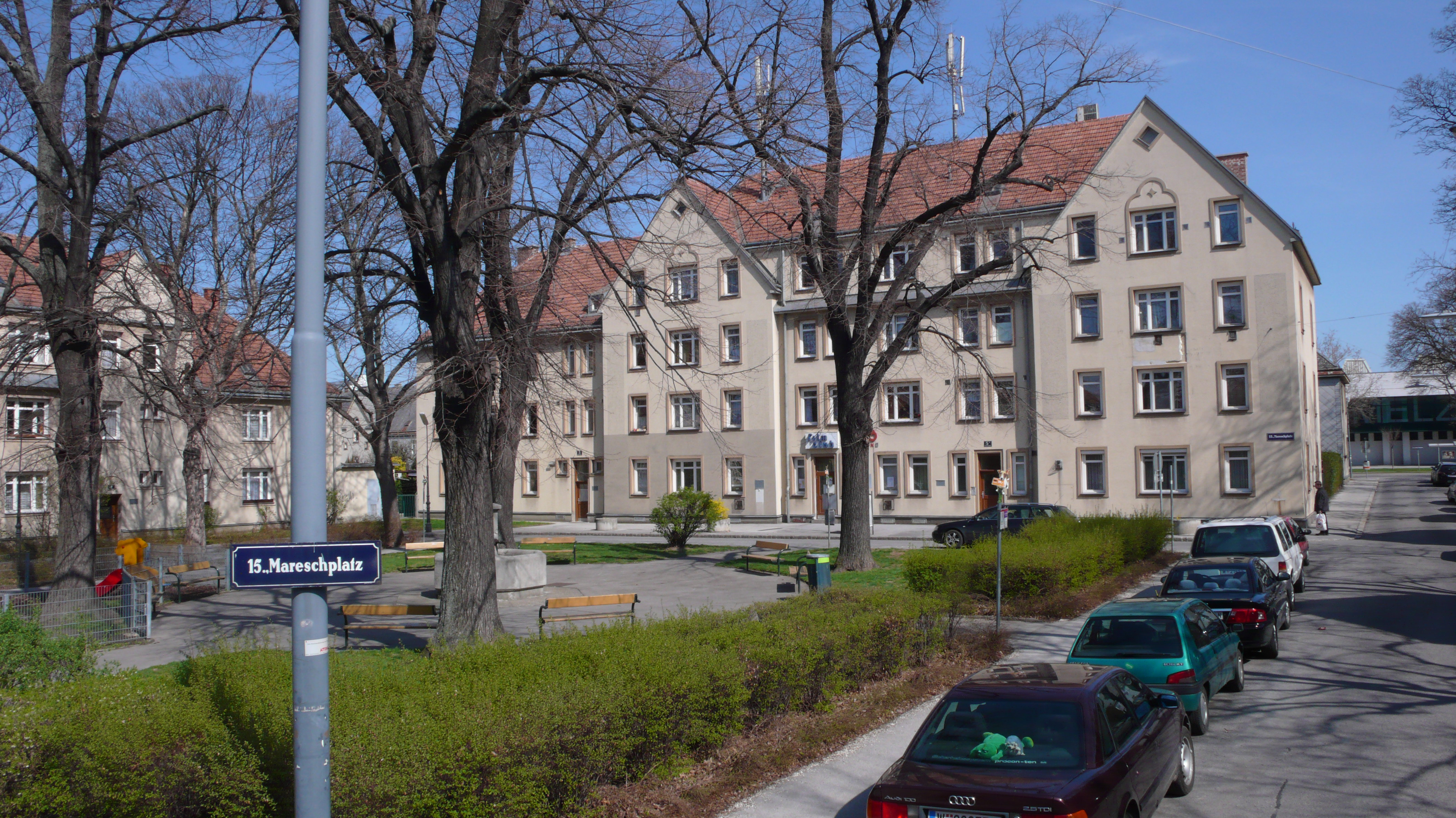 Der Mareschplatz in Vienna Rudolfsheim-Fünfhaus